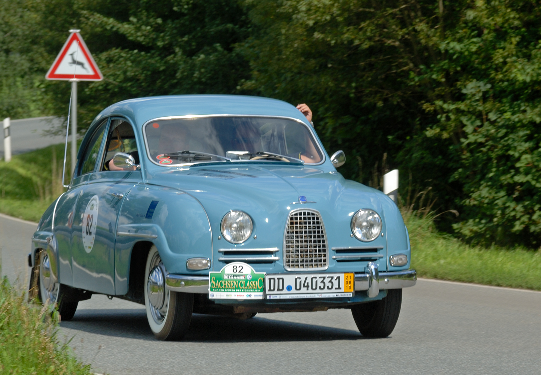 Saab 93 B deluxe from 1959 during the Saxony Classic Rallye 2010